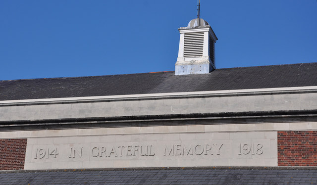 Inscription plaque, Barry Memorial Hall